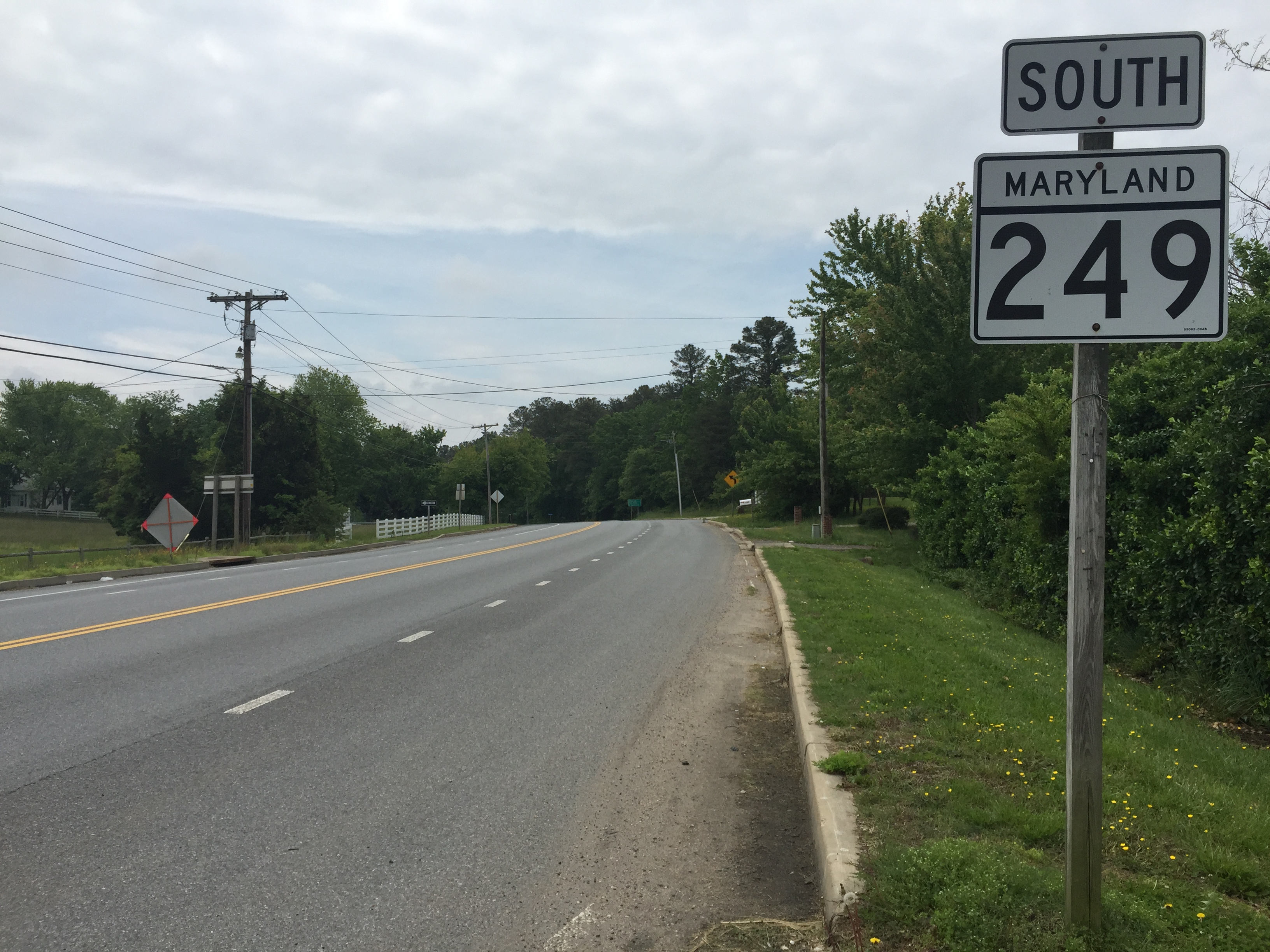 View south along Piney Point Road (Maryland State Route 249) near Point Lookout Road (Maryland State Route 5) in Callaway, St. Mary's County, Maryland